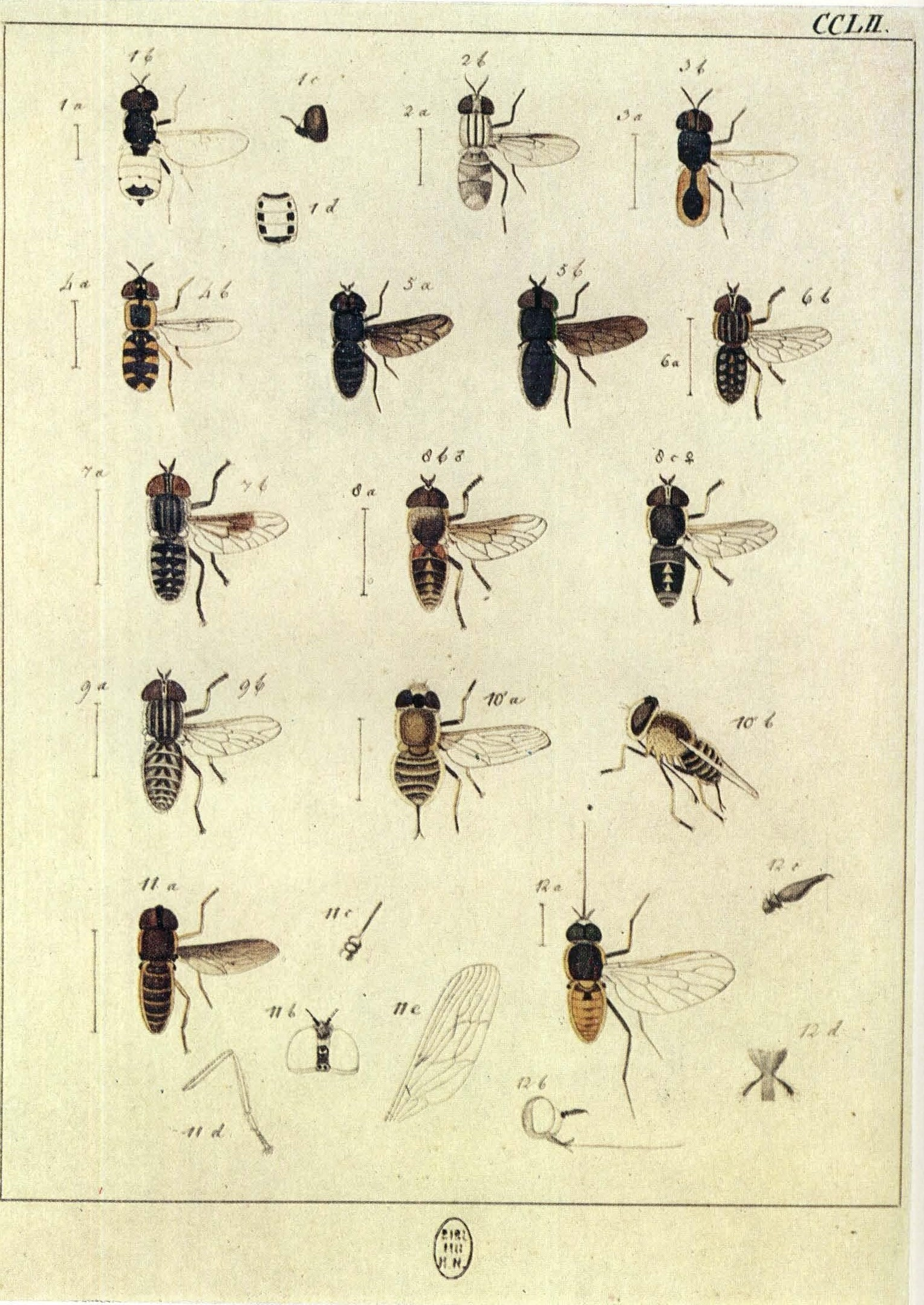 Johann Wilhelm Meigen, 1790 Abbildung der europäischen zweiflügeligen Insekten nach der Natur Von Joh. Wilh. Meigen zu Stolberg bei Aachen 1 Taf CCLII Text here File:EuropäischenZweiflügeligen1790TafCCLI-CCLVText.jpg Valid names and synonyms at Catalogue of Life (Annual Checklist) and Nomenclator. Types at MNHN collections database Note Europäischen Zweiflügeligen includes species described by previous authors - Linnaeus, Wiedemann, Fabricius, Scopoli, Forster, Fallen, Rossi, Macquart,Robert etc. 1 Nemotelus ventralis Meigen, 1830 2 Clitellaria dahlii Meigen, 1830 3 Odontomyia flavissima (Rossi, 1790) (accepted name) 4 Stratiomys septemguttata Meigen, 1822 synonym of Odontomyia annulata (Meigen, 1822)accepted name) 5 Dasyrhamphis carbonarius (Meigen 1820) 6 Hybomitra macularis Fabricius, 1794 7 Dasyrhamphis umbrinus (Meigen, 1820) 8 Tabanus dimidiatus Meigen, 1830 9 Tabanus bromius Linnaeus, 1758 10 Neorhynchocephalus tauscheri (Fischer 1812) 11 Hirmoneura obscura Wiedemann, 1820 12 Phthiria gaedii Wiedemann in Meigen 1820